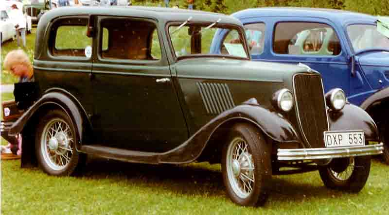 Ford Model Y Junior Tudor Saloon 1932